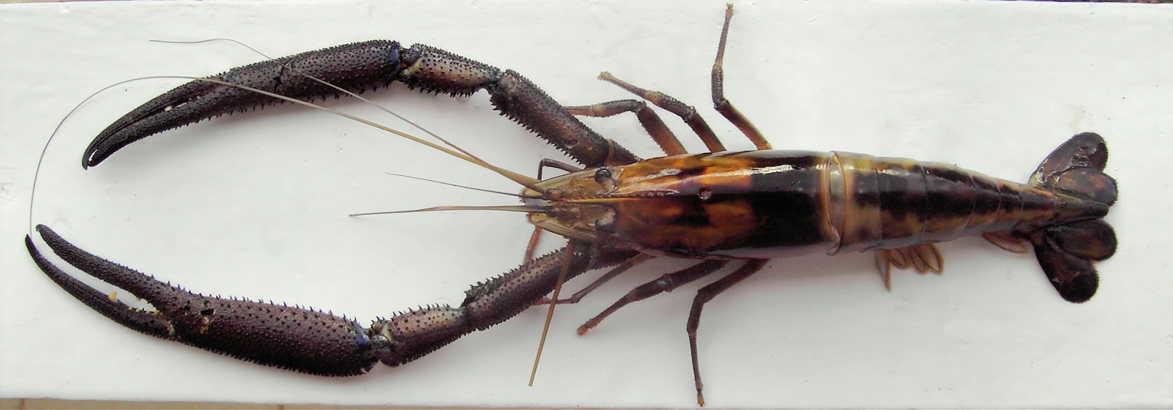 Big-claw River Shrimp at Dominica, W.I.